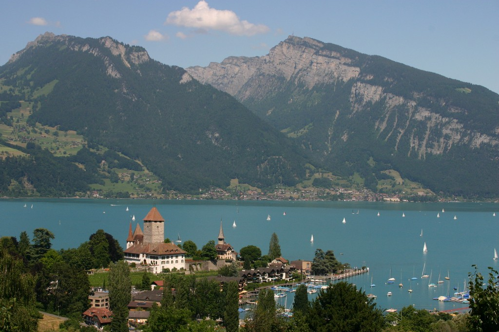 Spiez, near Interlaken, Switzerland